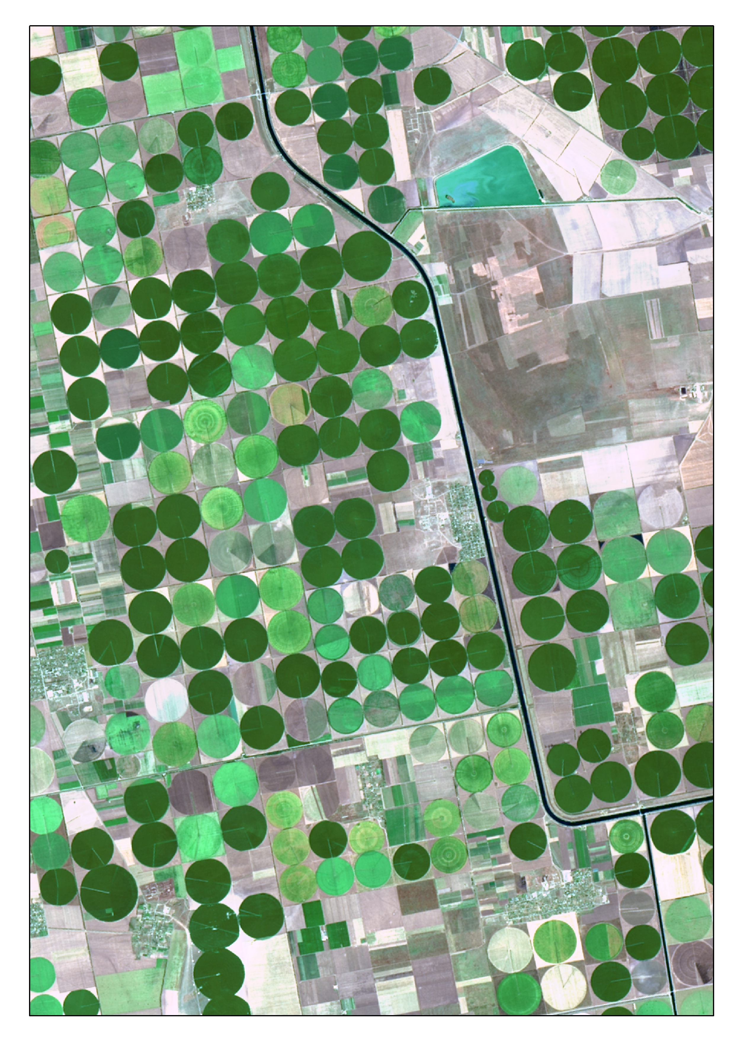 The picture is satellite image of irrigated crops and Kahov irrigation canal. It is captured 7-Aug 2015 by Landsat8 (OLI) under USGS/NASA Landsat Program. The image is created as True Color Composite, where R – Red Band (0.64 - 0.67 µm), G – Green Band (0.53 - 0.59 µm) and B – Blue Band (0.45 - 0.51 µm). This band combination is suitable for crop monitoring. For emphasizing characteristics, the image was pan-sharpened by panchromatic band. Nonlinear adaptive procedure of contrasting was applied too. • «Crop circles» appear because of bright plants, which are watered by center pivot irrigation machine. • Lines, looks like “hour hand” are irrigation machine equipment. They are rotate around a pivot and watered with sprinklers. • “Tree rings” are matched with the damaged elements of the irrigation machine.